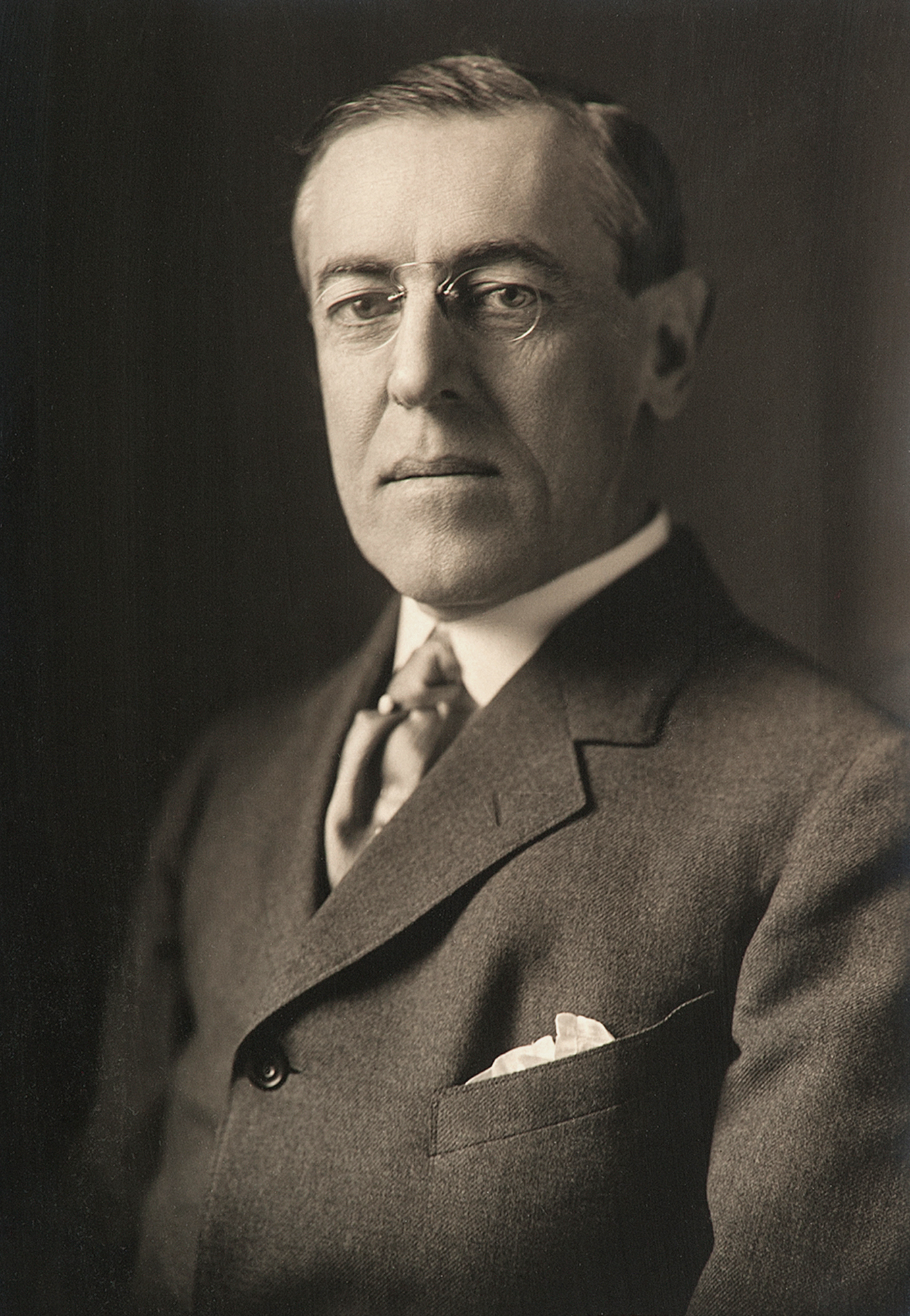 President Woodrow Wilson